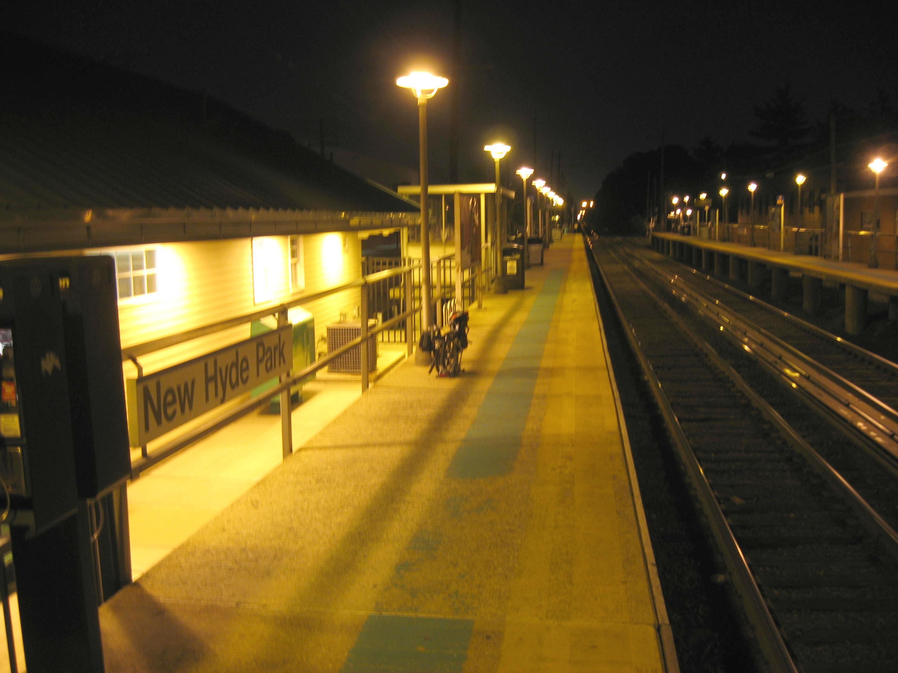 Looking east along New Hyde Park (LIRR station) northern platform at night as a westbound train approaches in the distance.